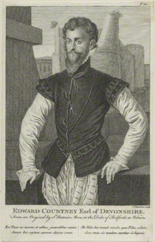 Copy of original by "Sr. Antonio More" in 1762 in the collection of the Duke of Bedford at Woburn Abbey.